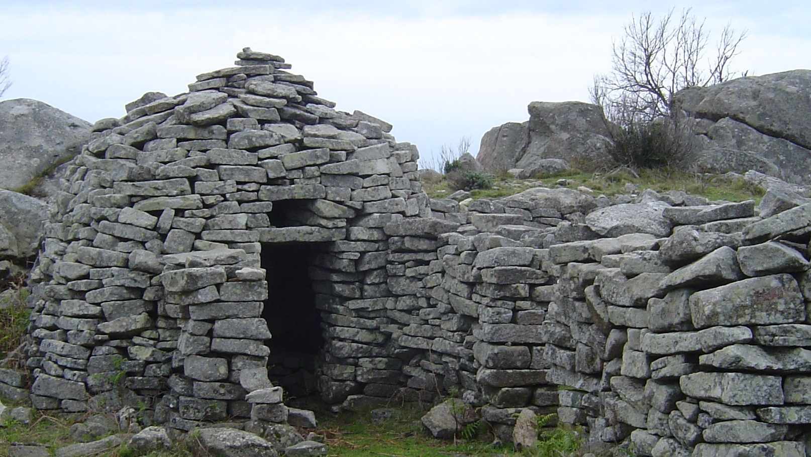 Elba island